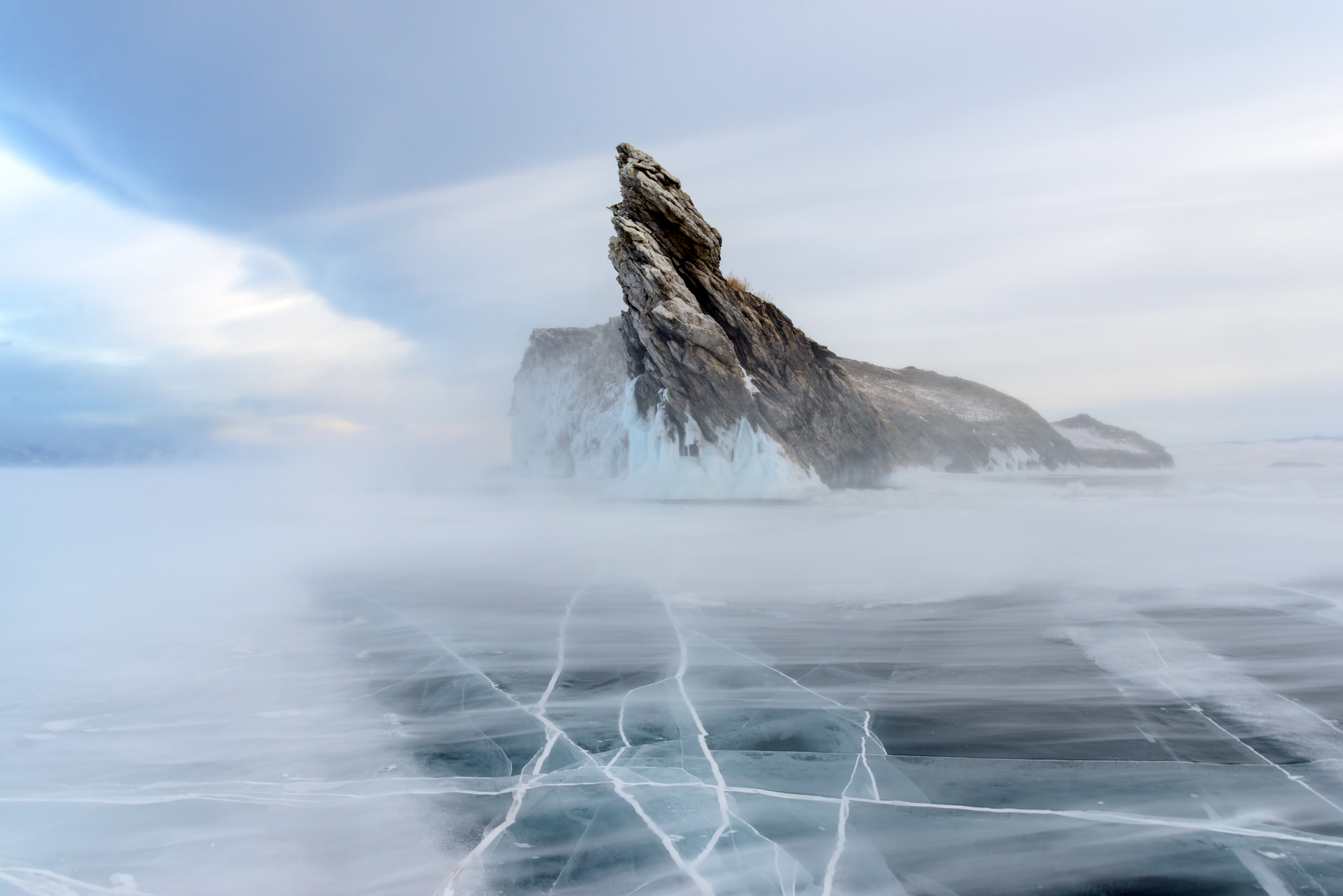 Snowstorm on lake Baikal near Ogoy island.